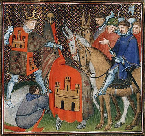 Alfonso XI, king of Leon and Castile Contents: Jean Froissart, Chroniques (Vol. I) Place of origin, date: Paris, Virgil Master (illuminator); c. 1410 Material: Vellum, ff. 382, 385x288 (243x187) mm, 42 lines, littera cursiva, Binding: 18th-century brown leather; gilt; with coat of arms of Stadholder William V Decoration: 1 two-column miniature (170x180 mm); 29 column miniatures (115/65x95/80 mm); 1 historiated initial (45x50 mm); decorated initials with border decoration (ff. 1r, 24r, 36r, 62r, 74v, etc.) Provenance: Louis de Luxemburg, conn‚table de France (d. 1475; signature, erased); by descent to his granddaughter Françoise de Luxembourg and her husband Philip of Cleves (d. 1528; coat of arms with label, over erasure; signature); purchased in 1531 from Philip's estate by HenriIII, Count of Nassau (d. 1538); by descent to the Princes of Orange-Nassau, the later Stadholders, at The Hague; carried off in 1795 to Paris by the French and restituted to the Koninklijke Bibliotheek in 1816